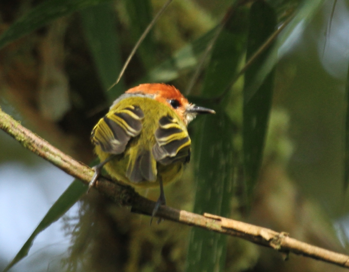 San Isidro Lodge - Ecuador